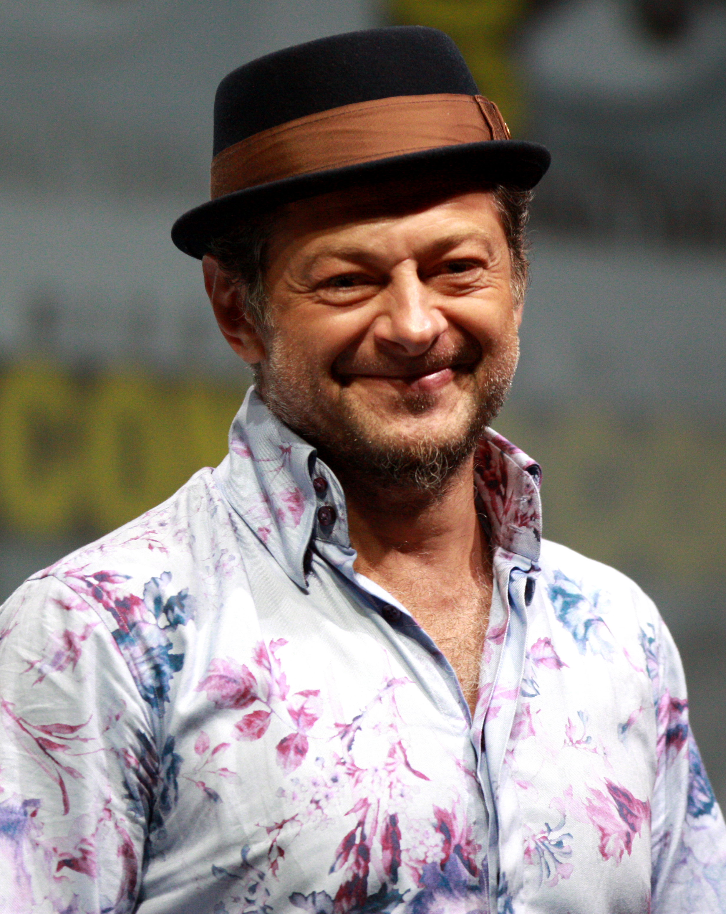 Andy Serkis at the 2013 San Diego Comic Con International in San Diego, California.